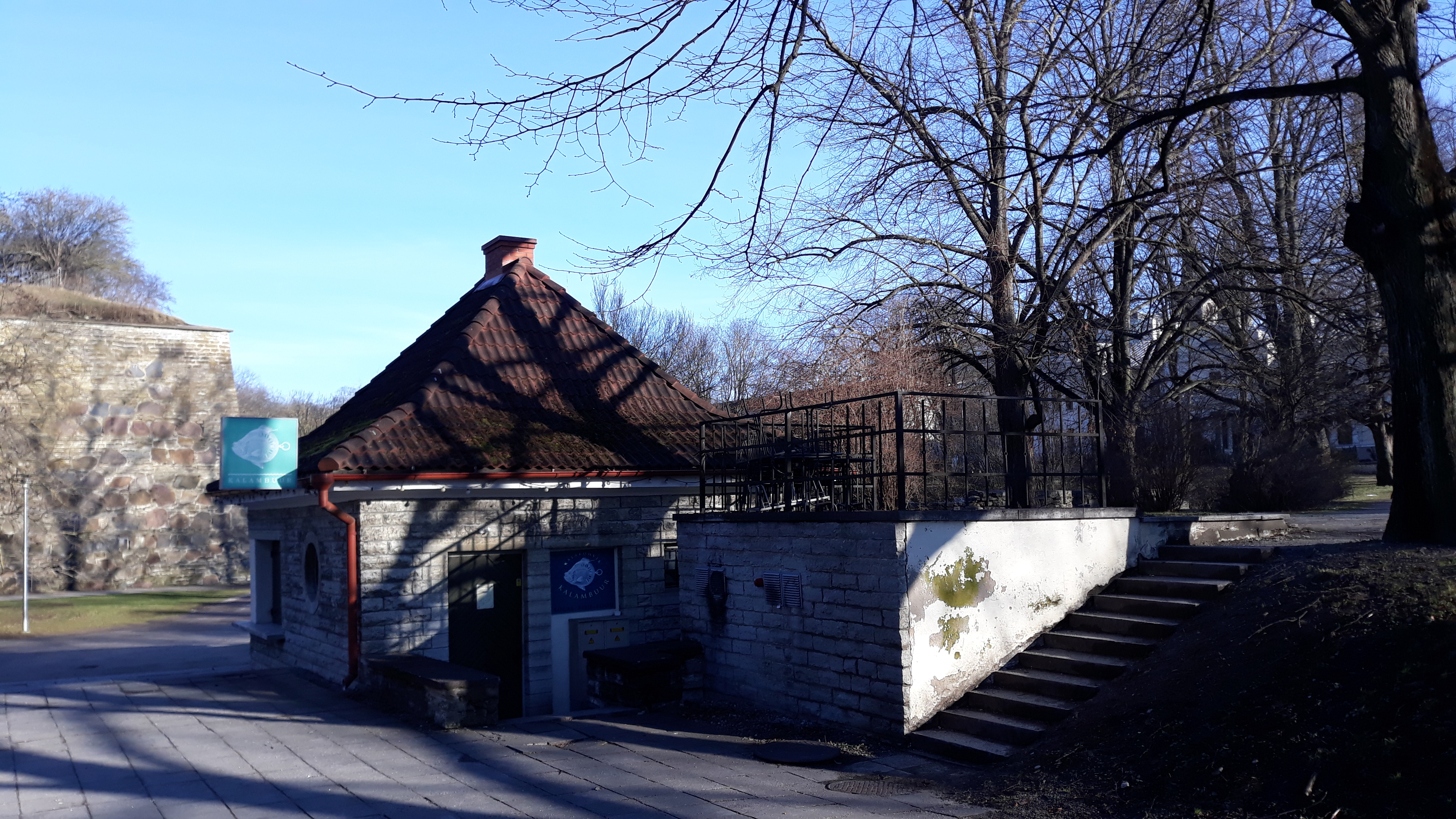 Pavilion at Hirvepark